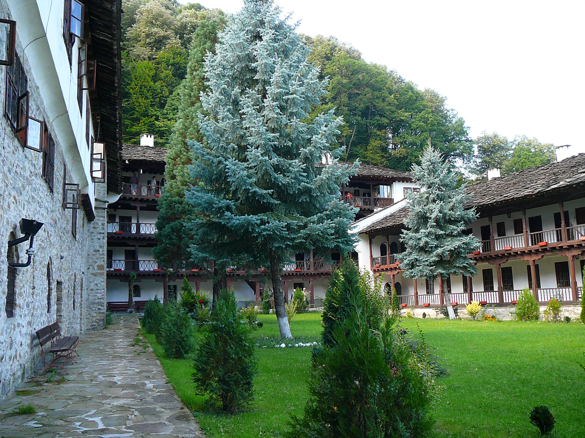 Troyan Monastery, Bulgaria